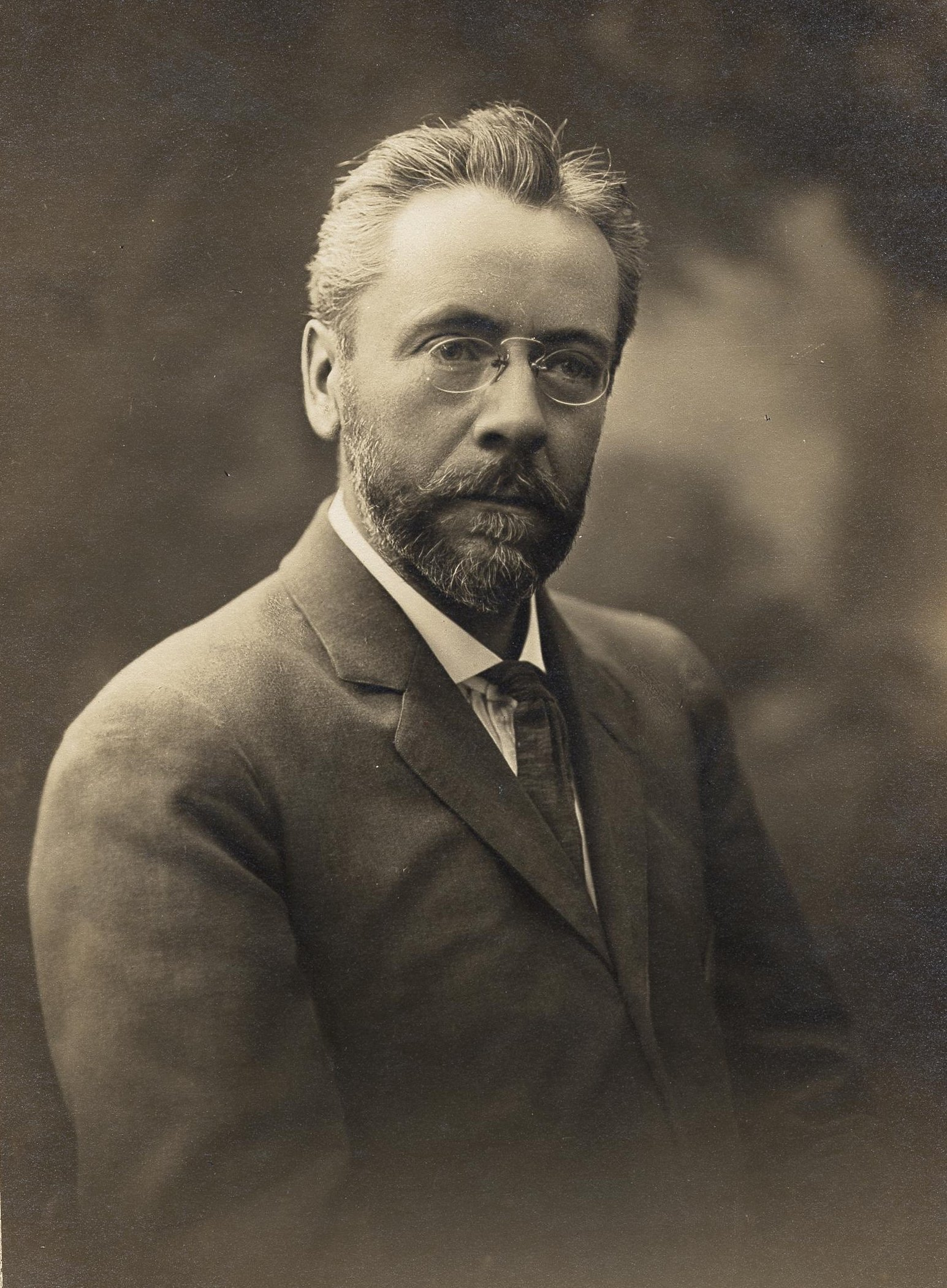 Portrait of Louis M. Eilshemius